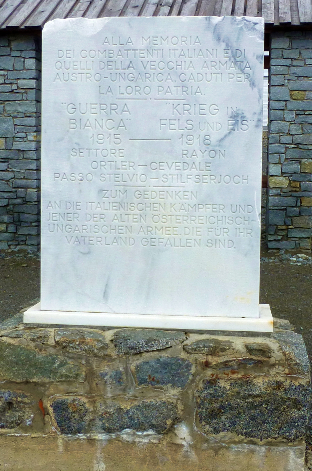 Memorial plaque at Stelvio Pass for the war in the Alps in 1915-1918 between Italy and Austria-Hungary